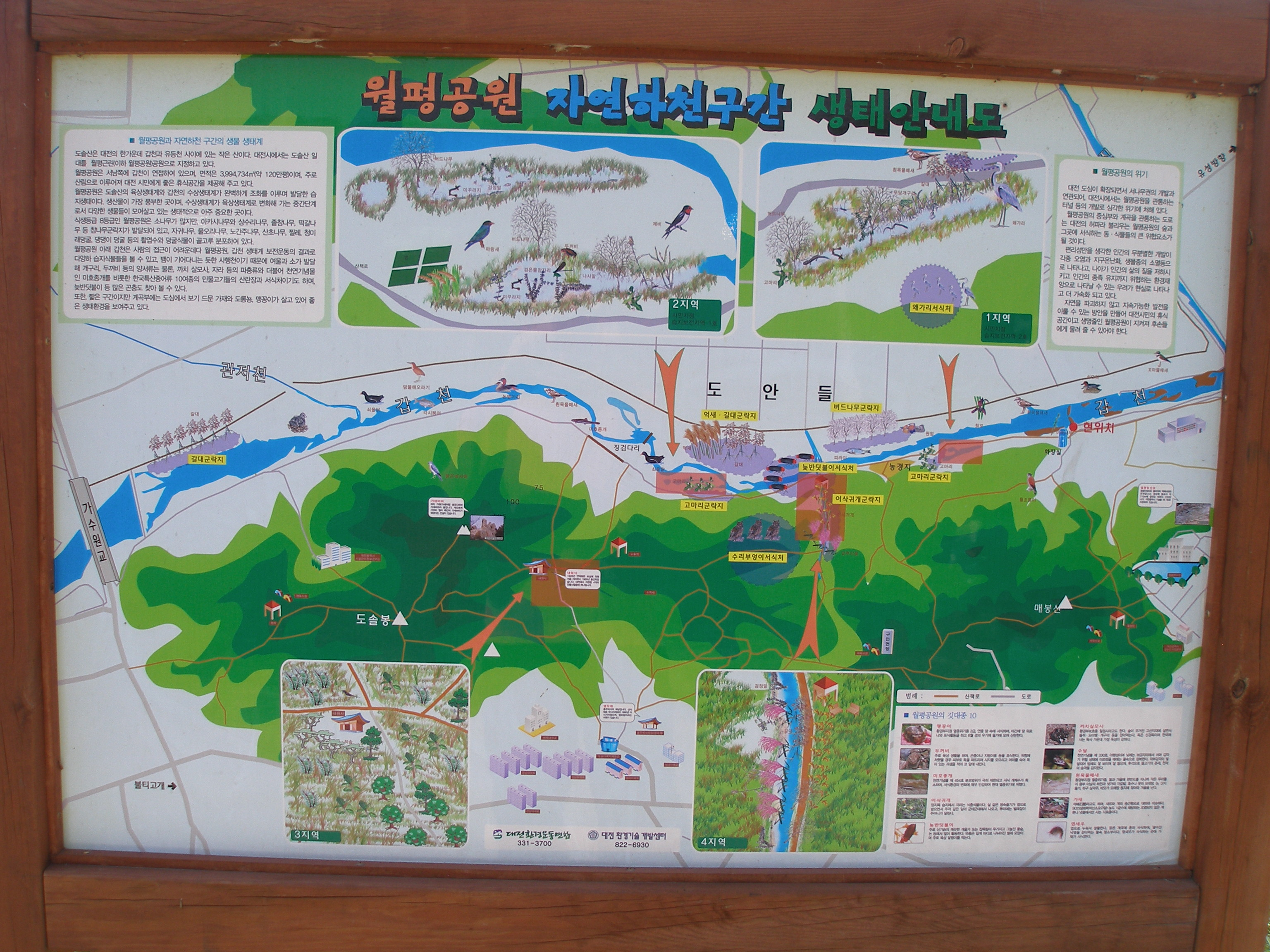 A Sign in Wolpyeong Park in Daejeon